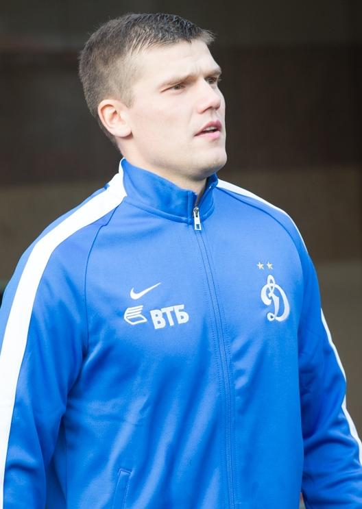 Igor Denisov with FC Dynamo Moscow before the game against PFC CSKA Moscow.